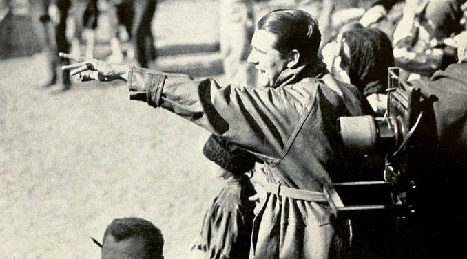 Still from the American film The Four Horsemen of the Apocalypse (1921) with director Rex Ingram, on page 64 of Peter Milne, Motion Picture Directing; The Facts and Theories of the Newest Art (1922).